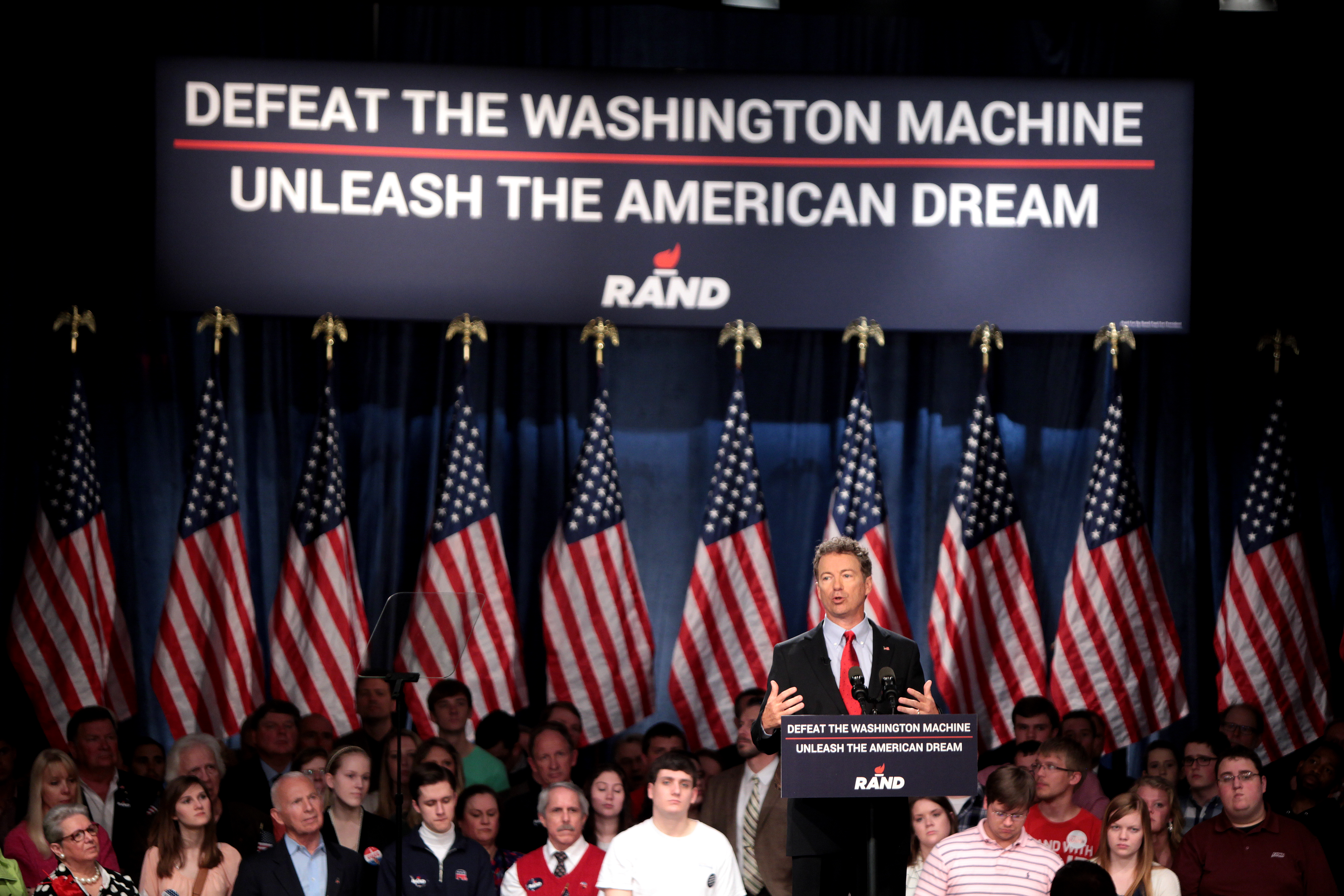 Rand Paul speaking at his Presidential announcement in Louisville, Kentucky.